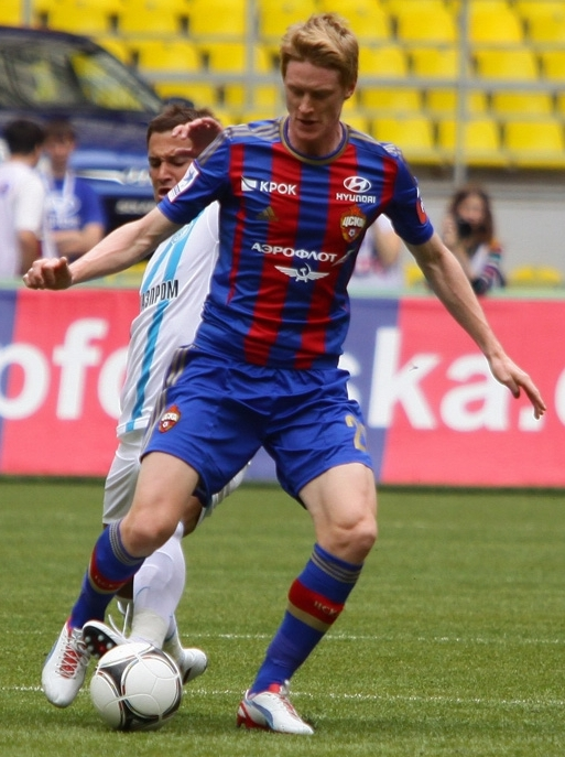 Rasmus Elm